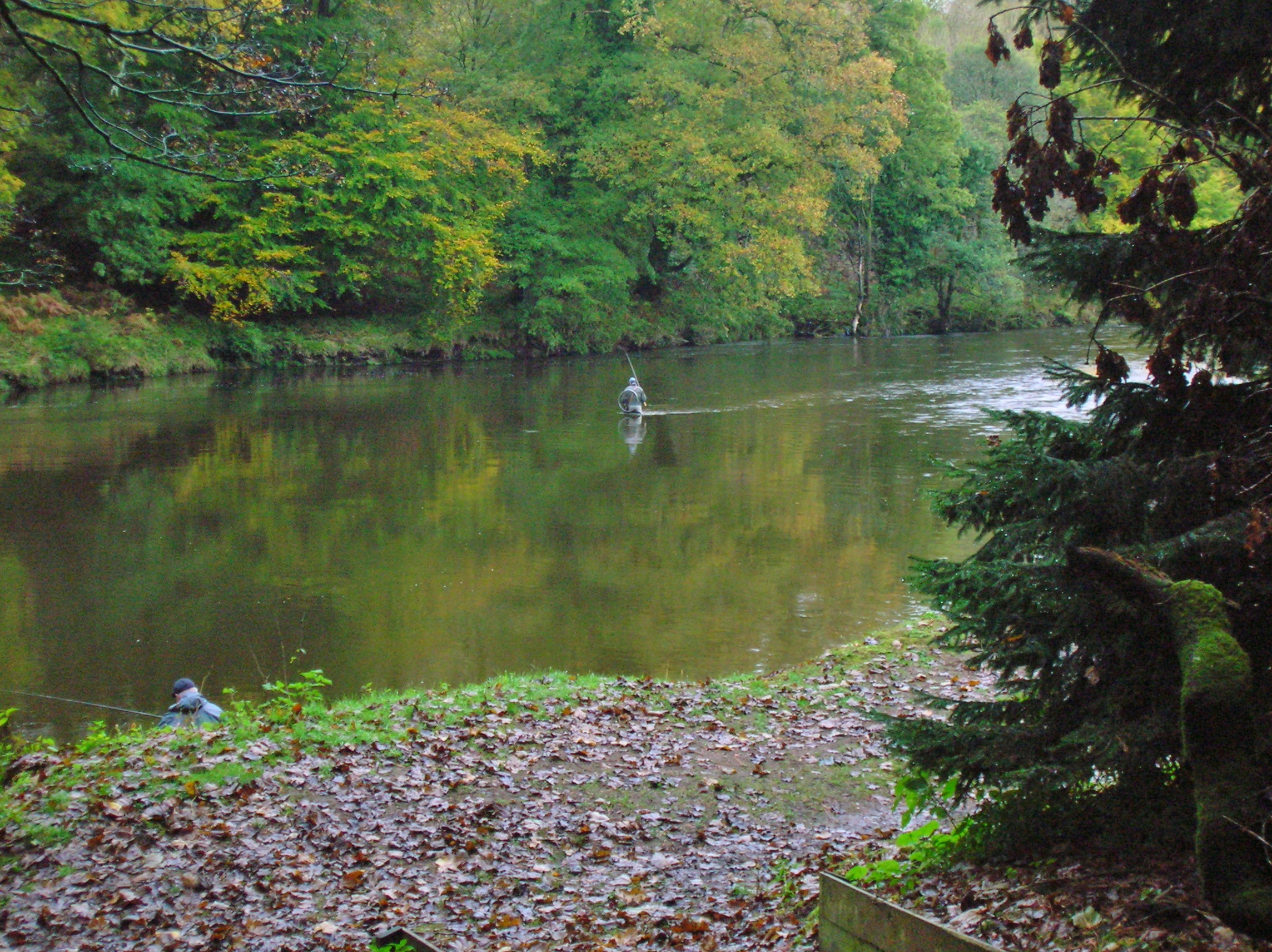 Angler on the River Nith near the Friar's Carse mansion, Auldgirth, Dumfries & Galloway, Scotland